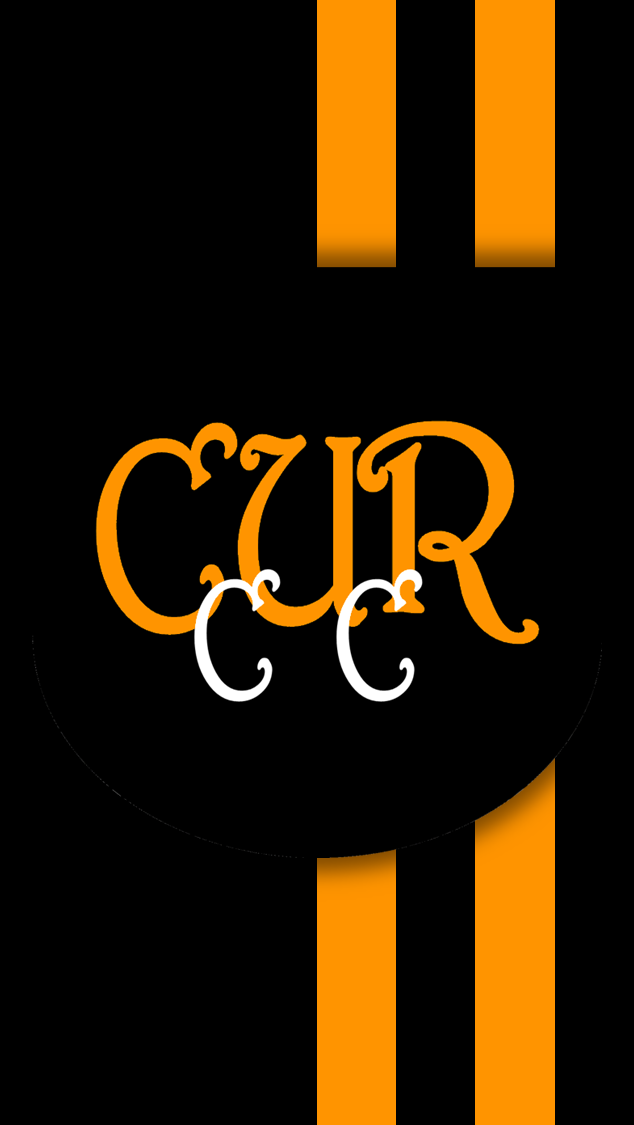 Logo of Uruguayan CURCC.